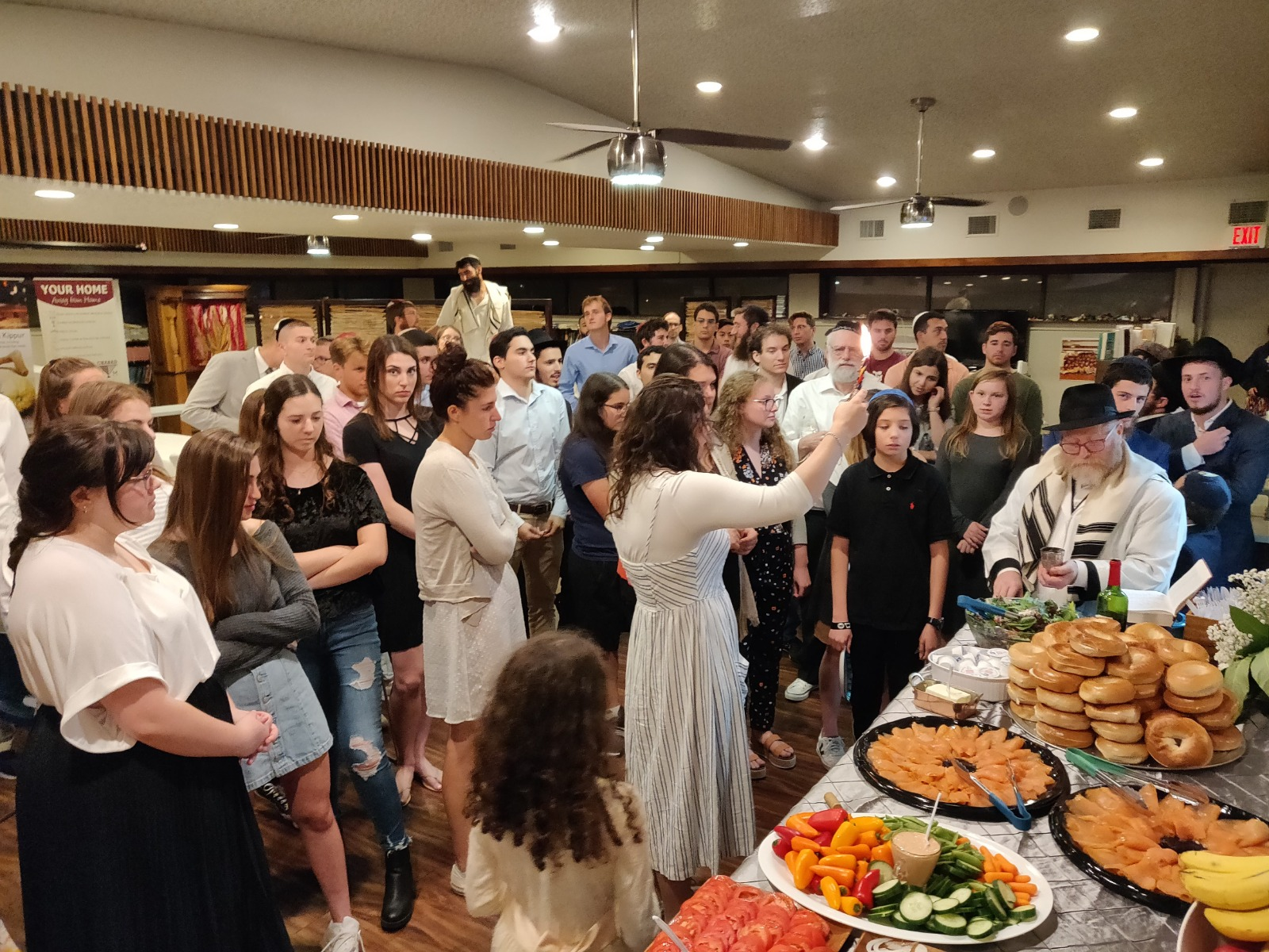 Break-the-Fast Event at Chabad at Texas A&M University after Yom Kippur in 2019